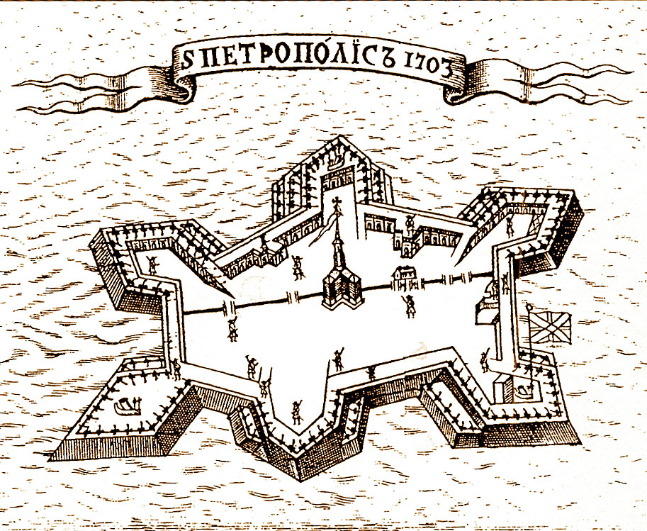 Fortress of Saint Peterburg